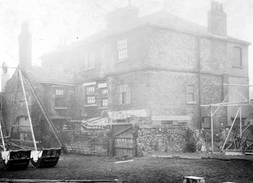 Back of former Royal Exchange pub at 7 Branch Church Street, Hunslet, West Yorkshire, England. This was the scene of one of the last sightings in 1882 of glass blower James Richardson, who was robbed, and possibly murdered, the same night. See the article: Trial of Mary Fitzpatrick